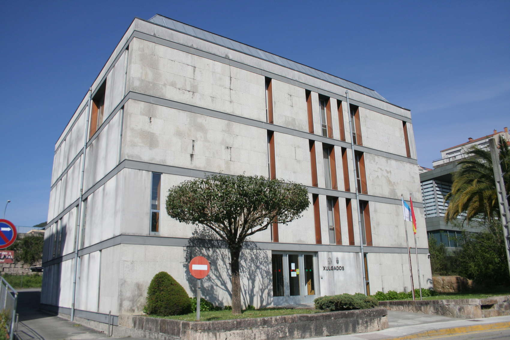 Courthouse in O Porriño (Spain)